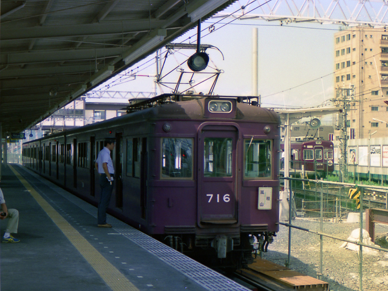 A Hankyu 710 Series EMU at Katsura Station on the Hankyu Arashiyama Line